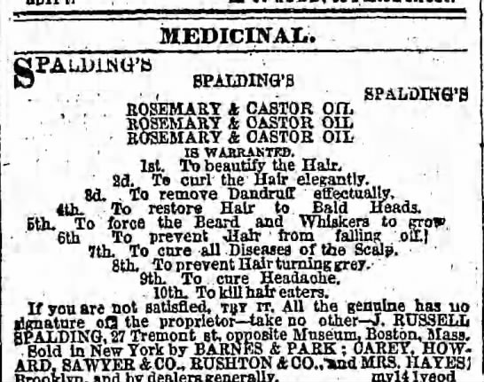 An 1860 advertisement for a hair tonic with the text arranged in the shape of a diamond